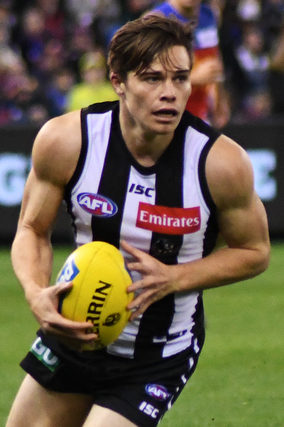 Josh Thomas of Collingwood during the 2018 AFL round 21 match between Collingwood and Brisbane at Etihad Stadium on Saturday, 11 August 2018 in Melbourne, Victoria.